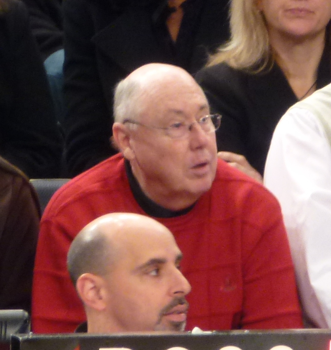 Mike Thibault, at the Maggie Dixon Classic in Madison Square Garden, 11 December 2011.